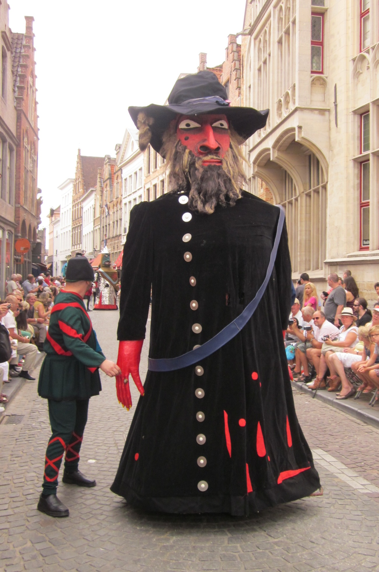 Parade of the Golden Tree in Bruges: Giant Grauwelinck